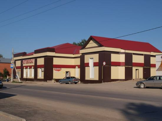 Kasimovskiy Bus Terminal (location - Kasimov, Ryazanskaya Oblast, Russian Federation)